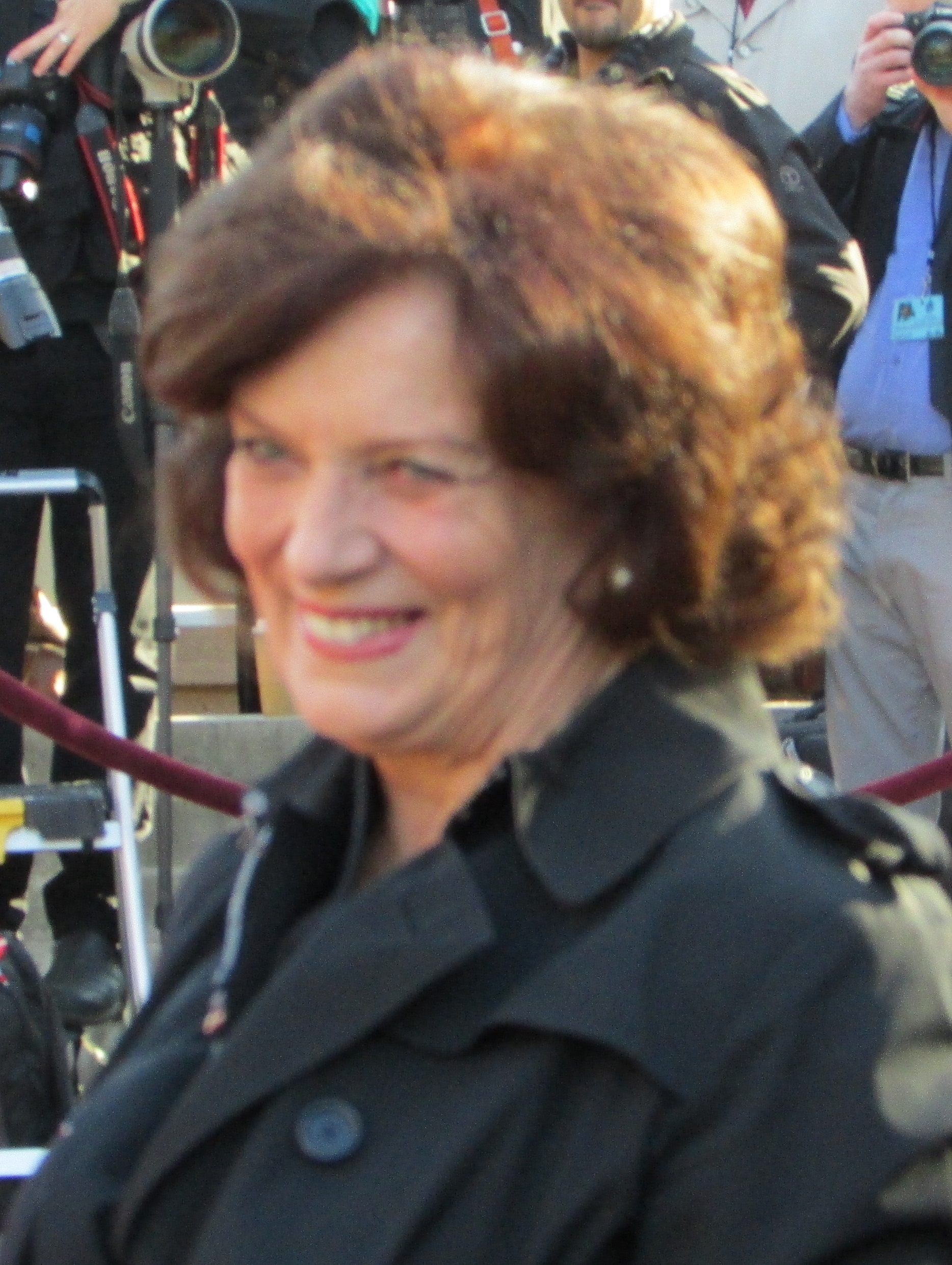 Margaret Trudeau